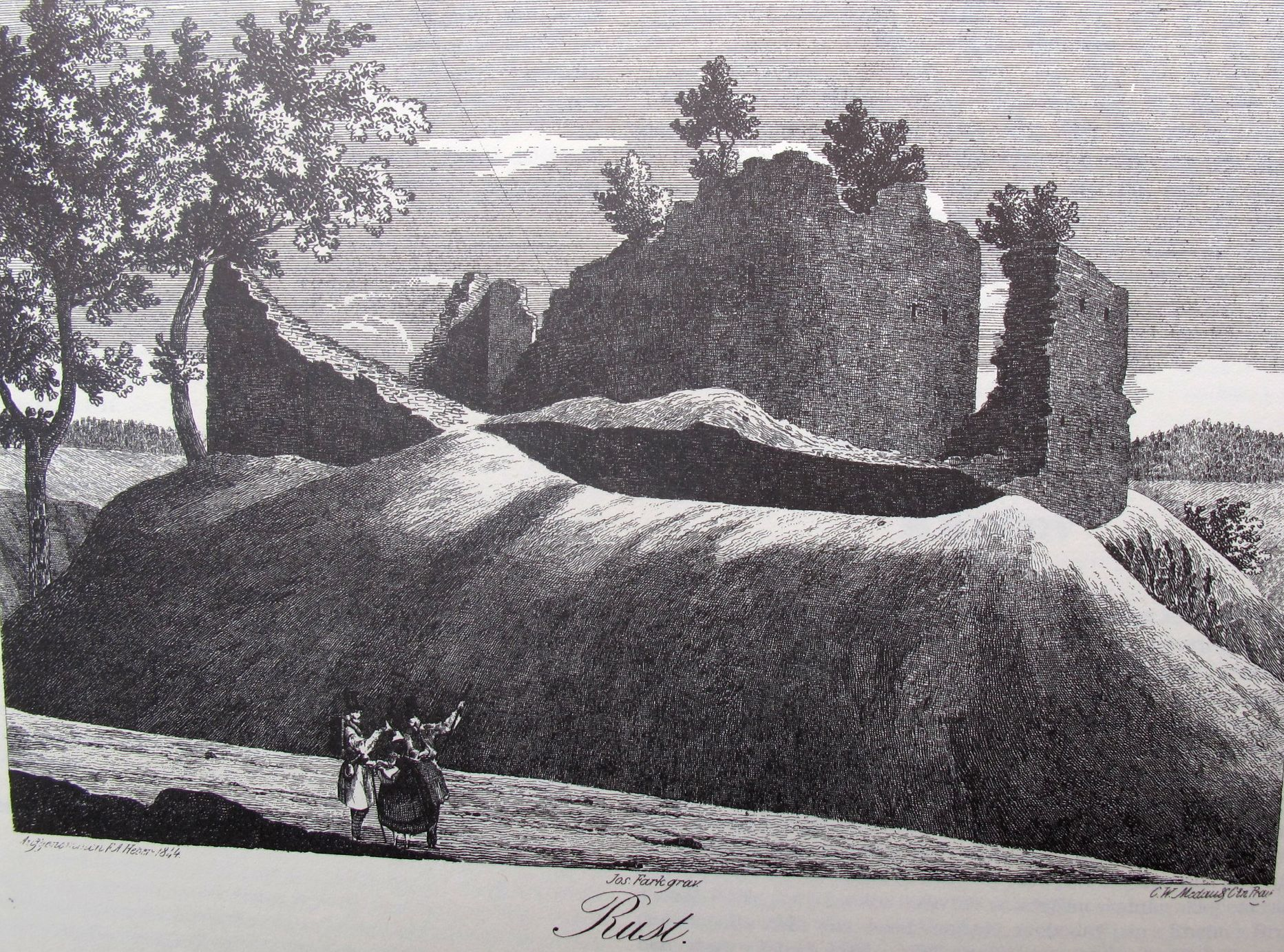 Křečov - Castle in the Czech Republic, wiew made by Franz Heber 1847